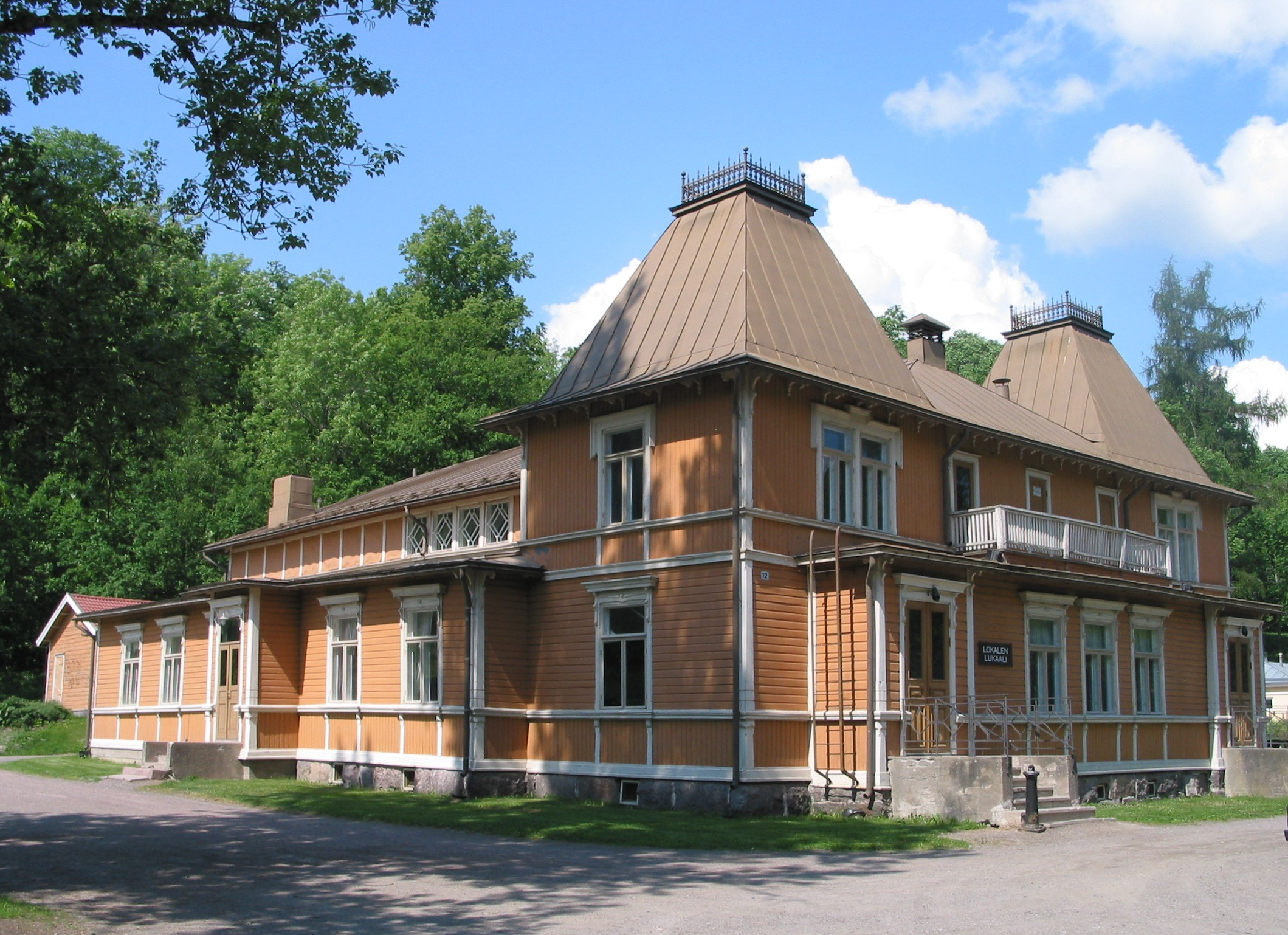 Assembly Hall, Fiskars, Uusimaa, Finland